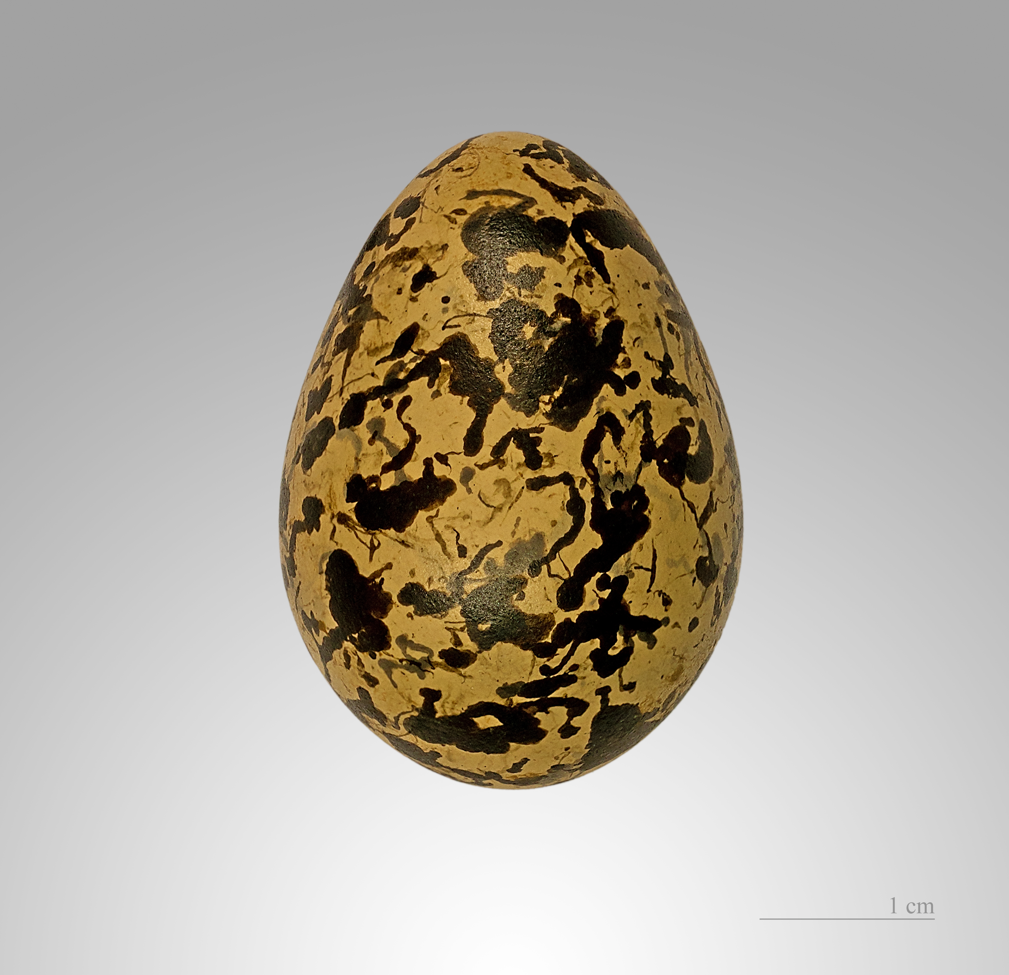 Egg of Greater Painted-snipe . Collection of Jacques Perrin de Brichambaut.